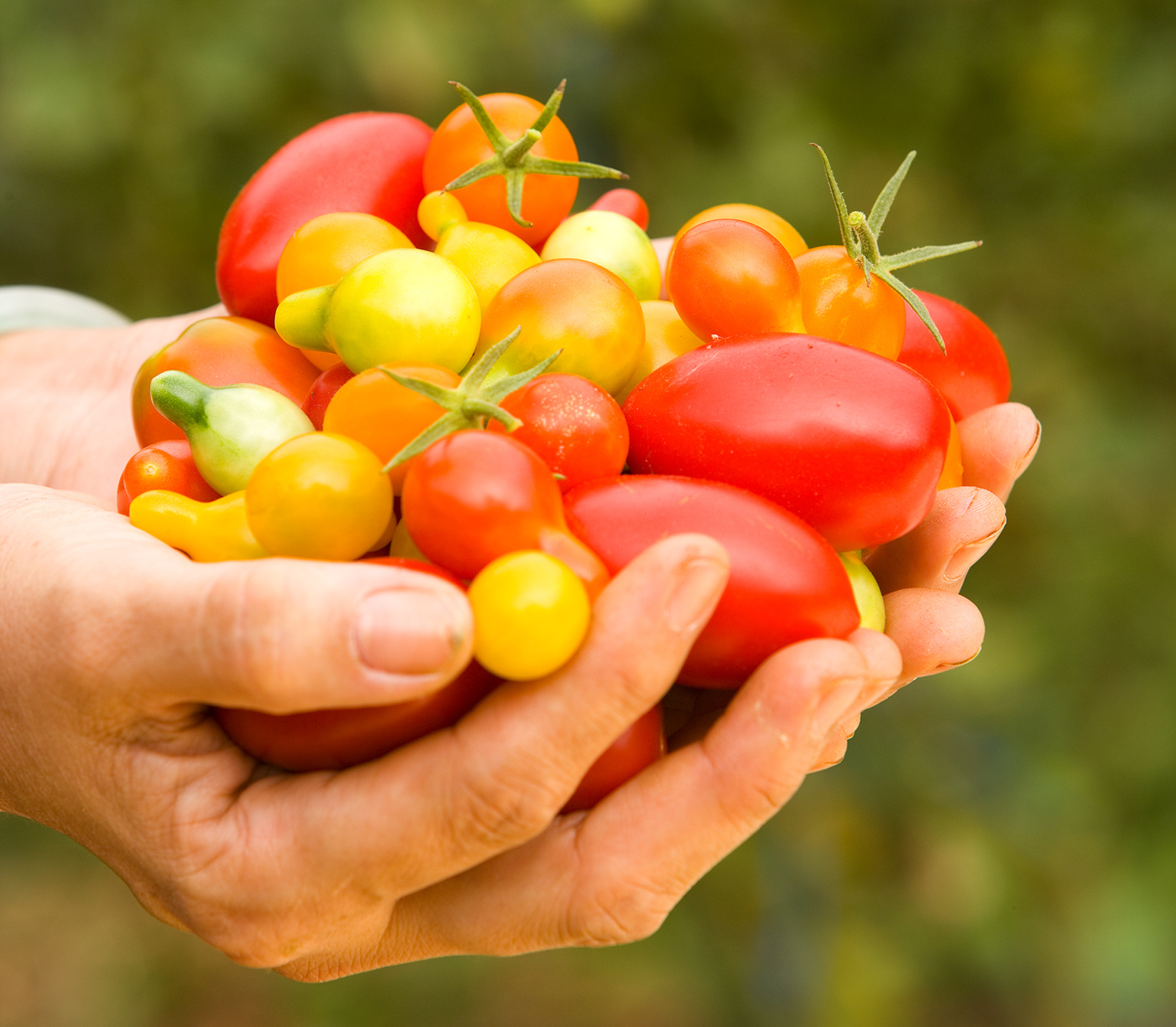 Handfull of tomatoes at Ho Farms in Kahuku, HI